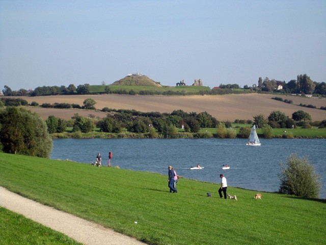 Pugneys Country Park Approaching the northern end of Pugneys lake.